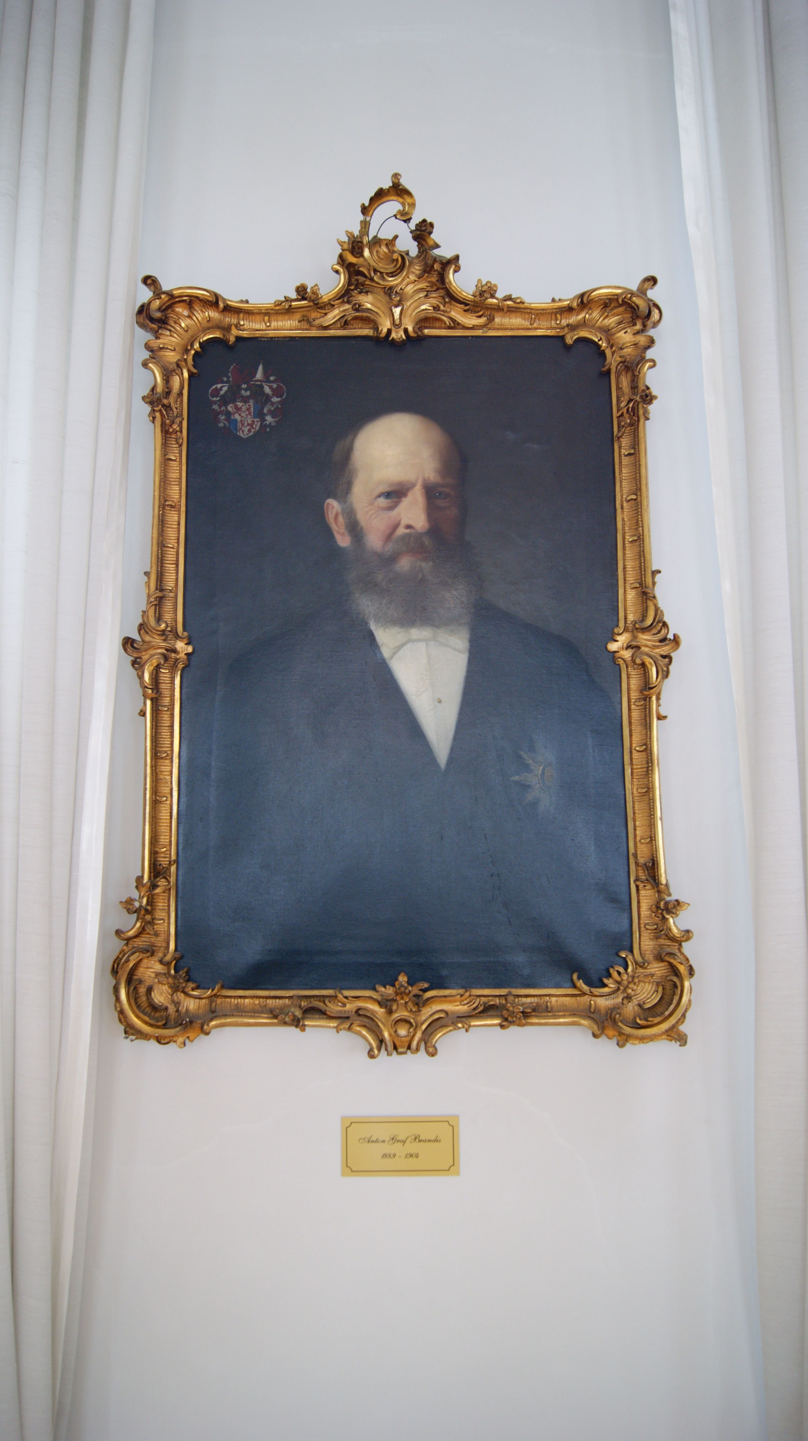 Anton von Brandis, head of the Provincial Government and the authority in charge of indirect federal administration of Tyrol.